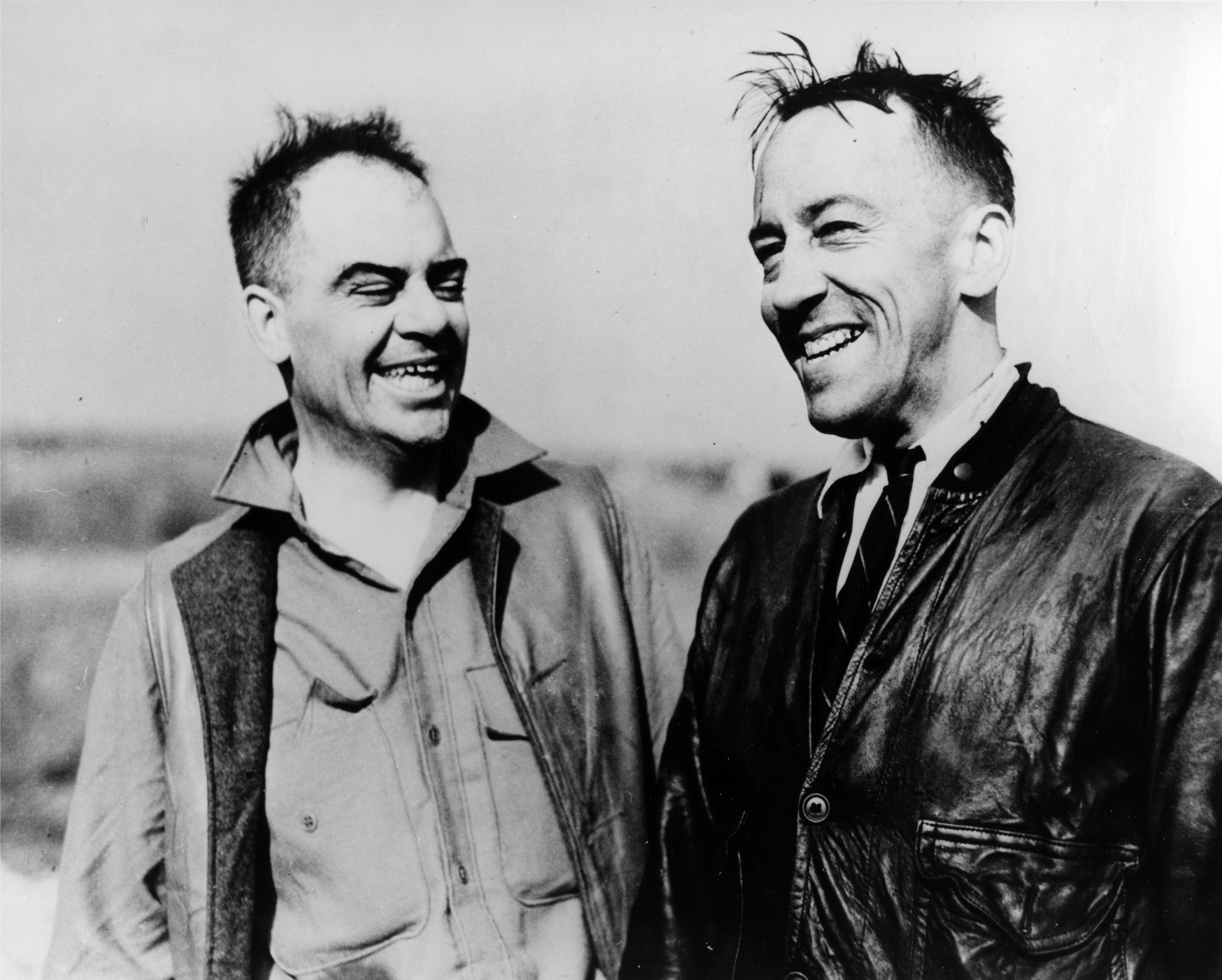 Maj. C.L Fordney, USMC & LCDR Thomas G.W. Settle, USN - crewmen of the balloon "A Century of Progress" that ascended to an altitude of 61,237 feet from Akron, OH, November 1933.